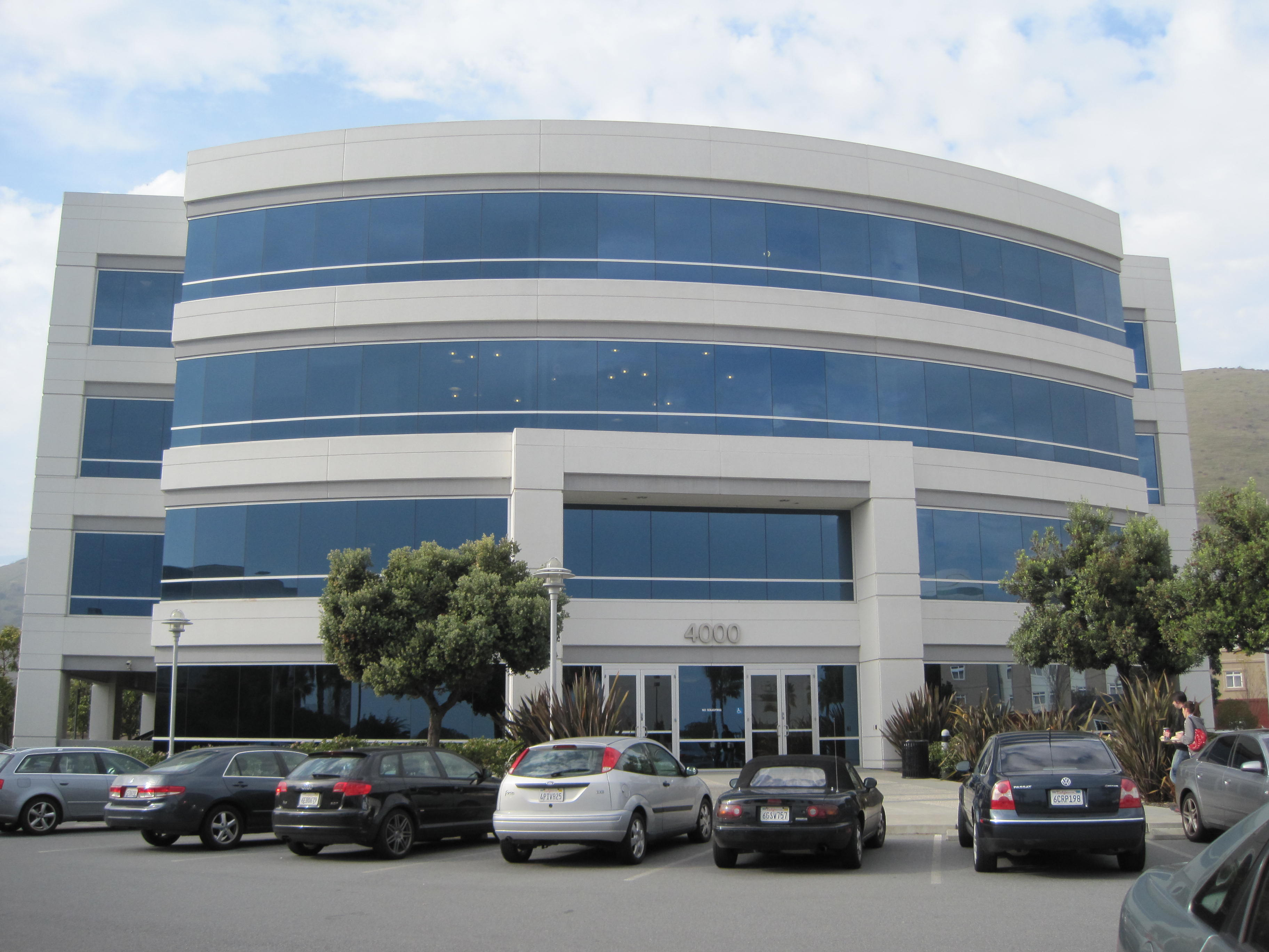 4000 Shoreline Court in South San Francisco, California. Future US is headquartered in this building on the third and fourth floors.